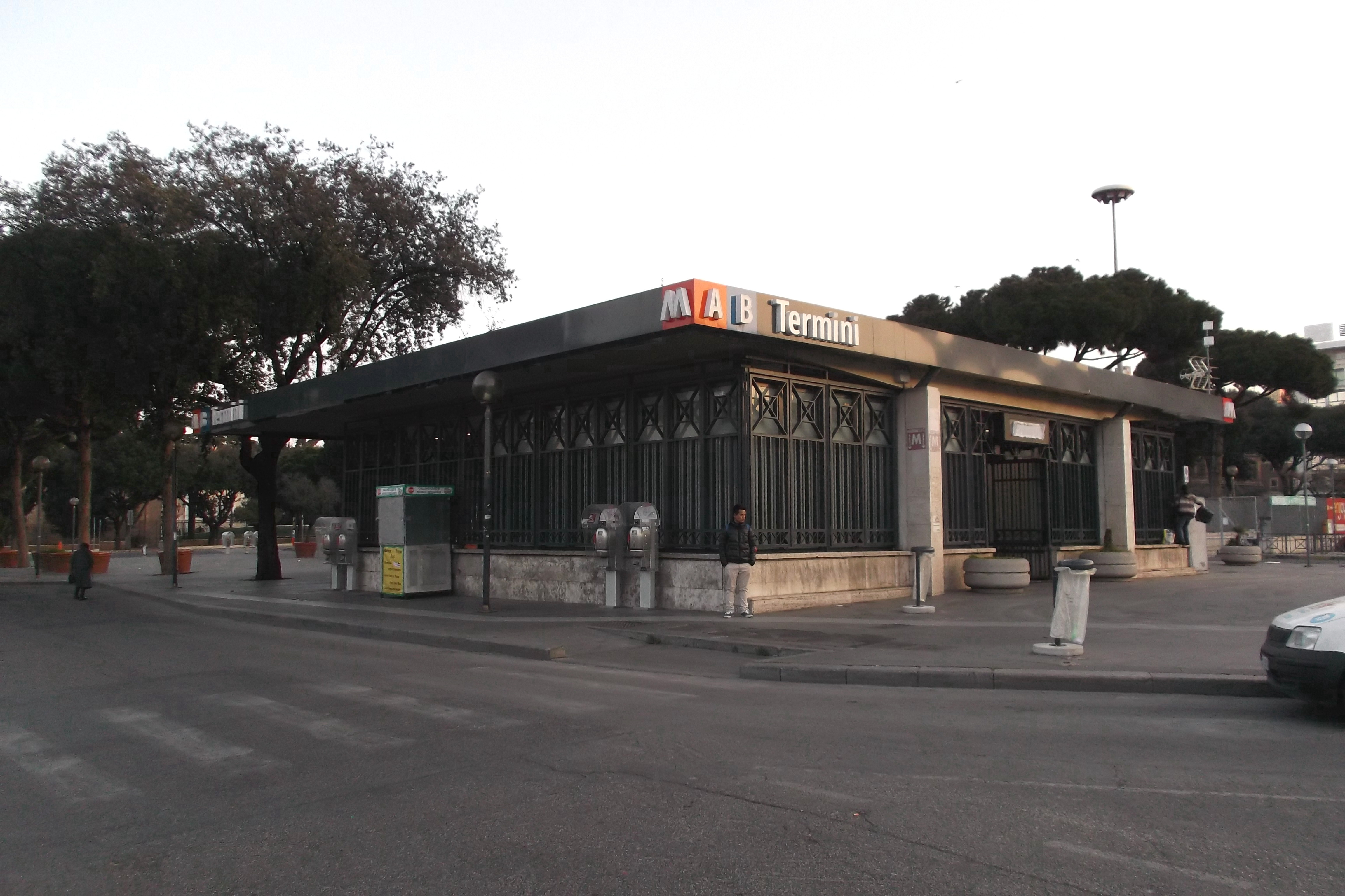 Street entrance of Rome Metro A and B Termini station